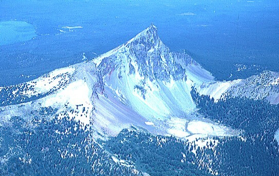 United States Geological Survey photo of Mount Thielsen, Oregon